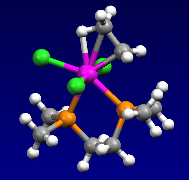 Structure of (C2H5)TiCl3(dmpe), highlighting the agostic interaction.